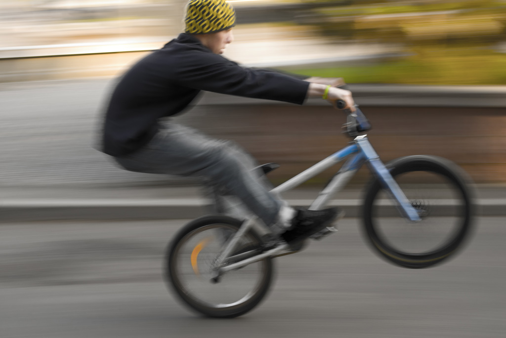 Bicycle motocross.